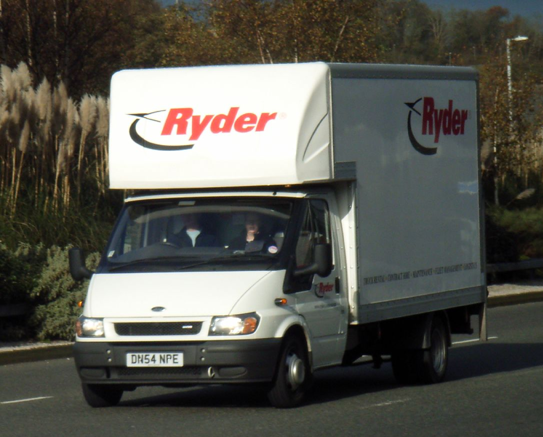 Ford Transit Luton van As Featured in On The Road Plymouth A 2 Z